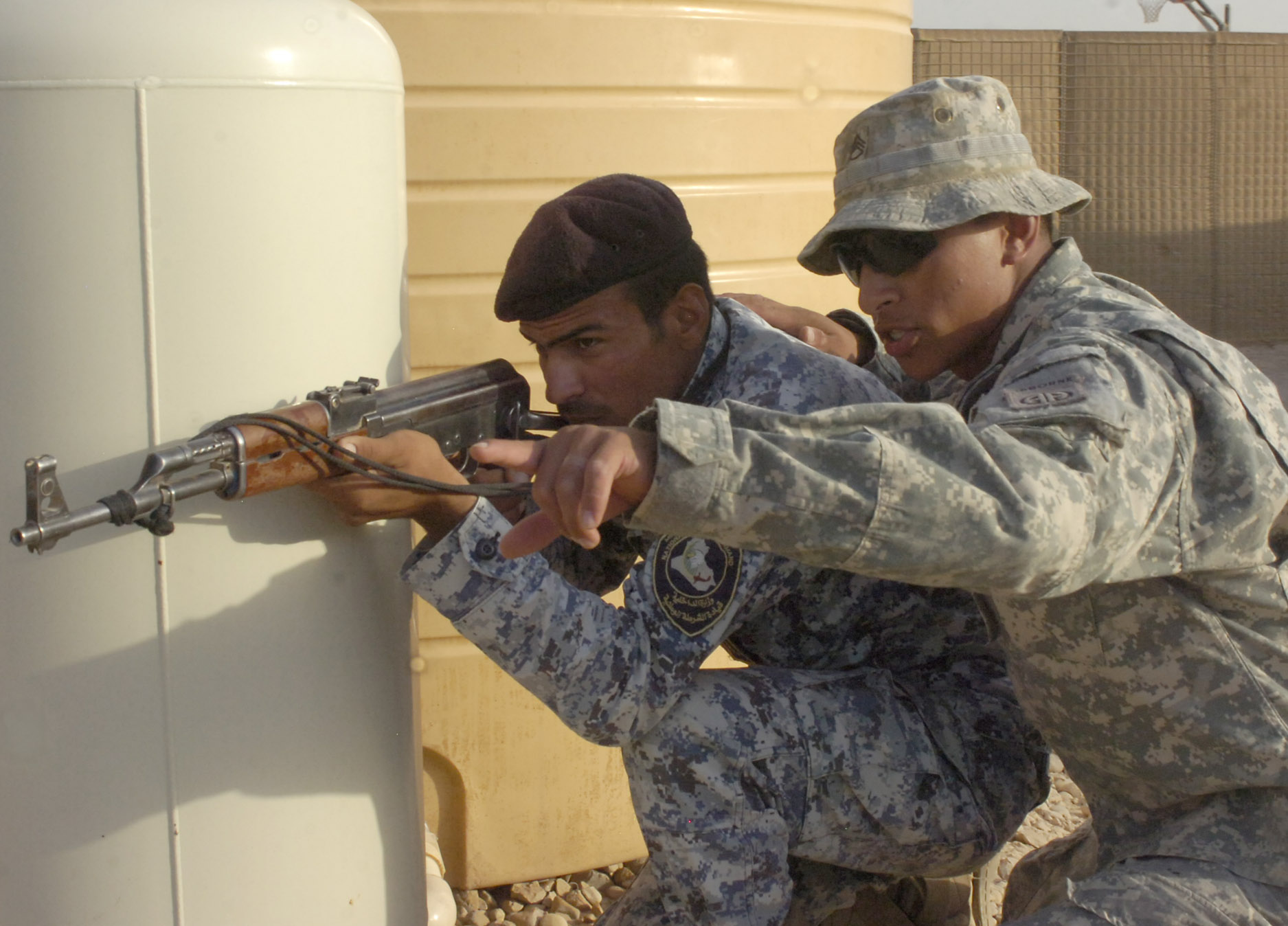 Staff Sgt. Damian Remijio, instructs a National Police officer assigned to the 3rd NP Brigade, 1st NP Division to keep his sights on a door during a training event, June 24, at Forward Operating Base Hammer, Iraq, located outside of eastern Baghdad. Photo credit: Sgt. 1st Class Alex Licea See more at Training academy prepares ISF personnel to protect, maintain security gains